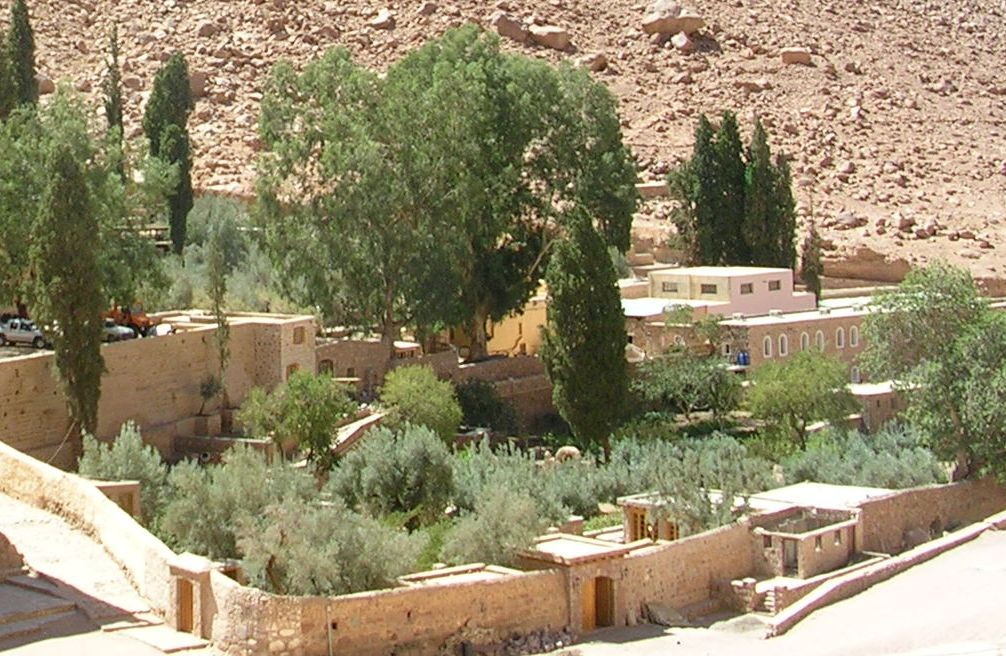 Garden in Saint Catherine's Monastery, Mount Sinai